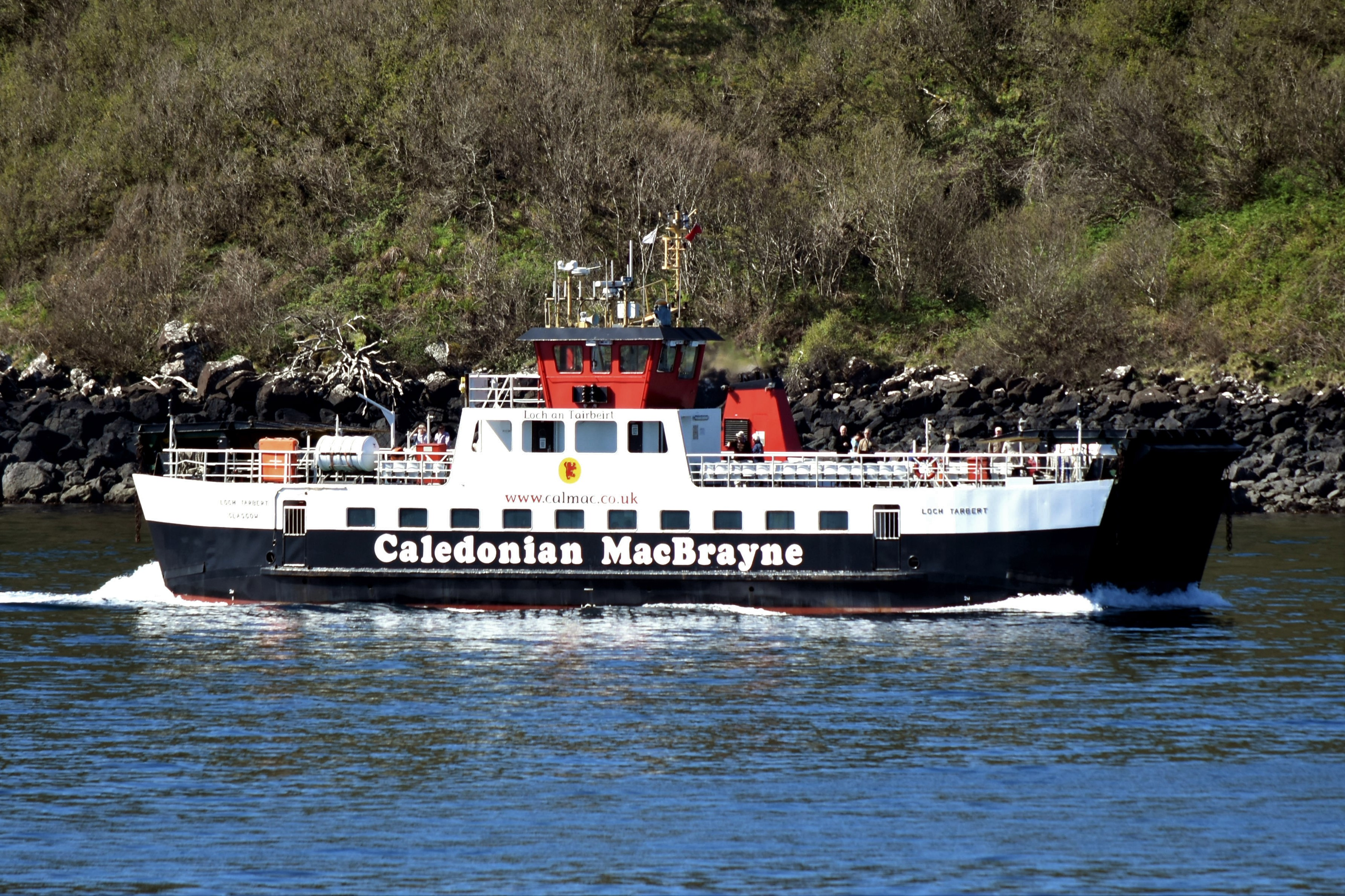 The CalMac ferry MV Loch Tarbert proceeds to Kilchoan on her regular sailings between there and Tobermory, Isle of Mull, 8 May 2017.